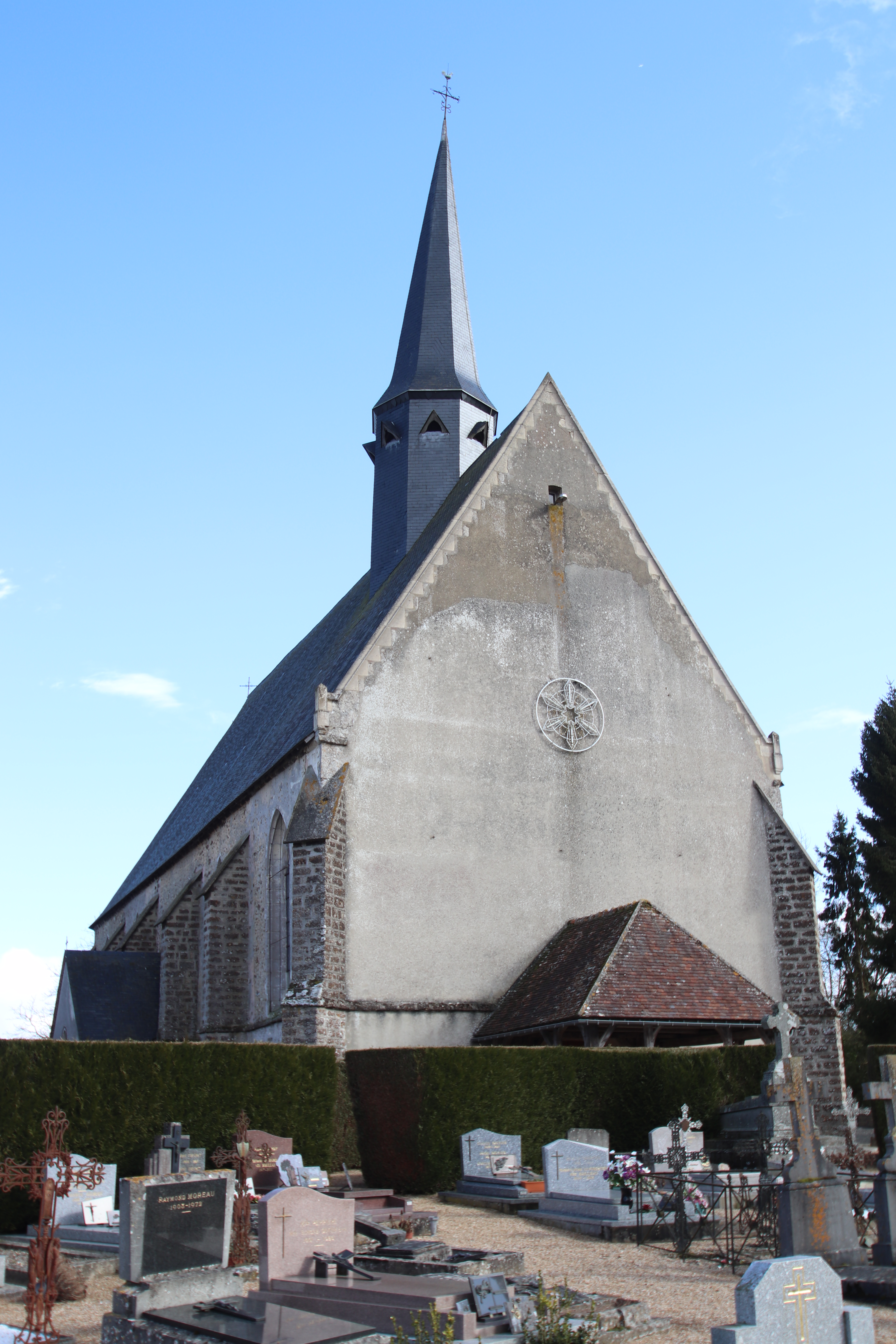 Saint-Éliph church of Saint-Éliph, France. Object location48° 26′ 57.37″ N, 1° 01′ 33.17″ E